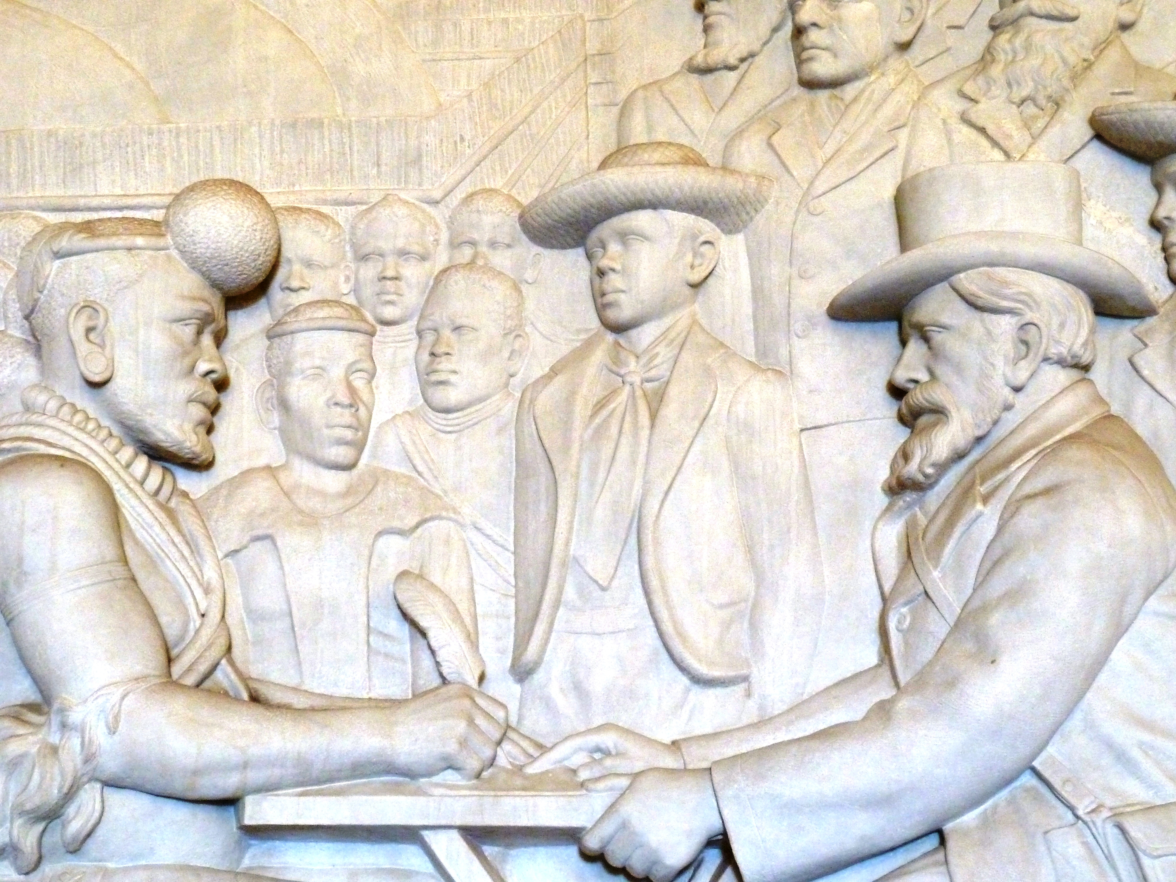 Part of the centrally placed panel 12 of the historical frieze in the Voortrekker Monument, Pretoria: Retief and Dingane sign the Treaty which grants the Voortrekkers land to the south